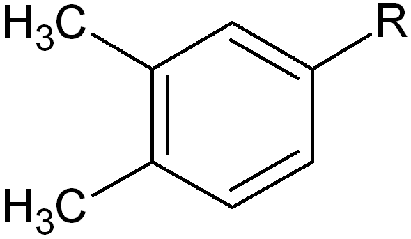 Xylyl group (aryl group)